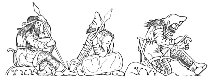 Scythian warriors, drawn after figures on an electrum cup from the Kul'Oba kurgan burial near Kerch. The warrior on the right is stringing his bow, bracing it behind his knee; note the typical pointed hood, long jacket with fur or fleece trimming at the edges, decorated trousers, and short boots tied at the ankle. The hair seems normally to have been worn long and loose, and beards were apparently worn by all adult men. The other two warriors on the left are conversing, both holding spears or javelins. The quiver is clearly indicated on the left hip of the man on the left, who is wearing a diadem and therefore is likely to be the Scythian king. (Hermitage Museum, St Petersburg)